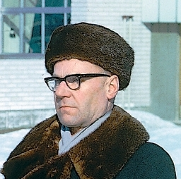 Tor Nessling, the General Manager of Oy Suomen Autoteollisuus Ab, in a presentation event of new Kontio-Sisu K-138SV model in Konala, Helsinki.